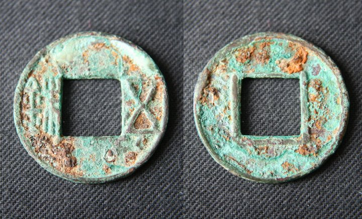 The front and reverse sides of a metal coin, 25.5 mm in diameter, issued during the reign of Emperor Wu (r. 141–87 BCE) of the early Han Dynasty of China.